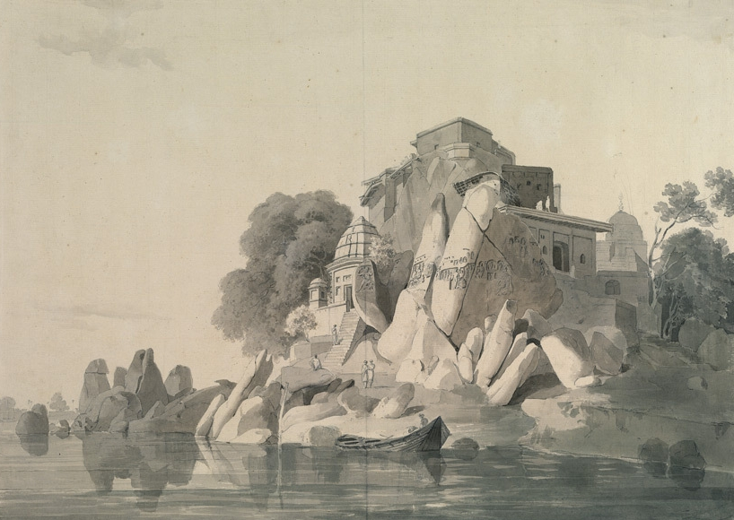 S.W. view of the Fakir's Rock in the River Ganges, near Sultanganj (Bihar). October 1788 - Pencil and wash drawing